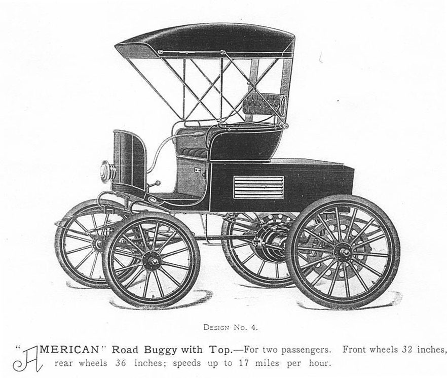 Scanned from a 1900s advertisement.